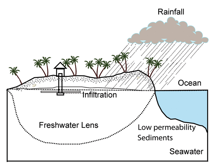 A freshwater lens in an island water basin basin.